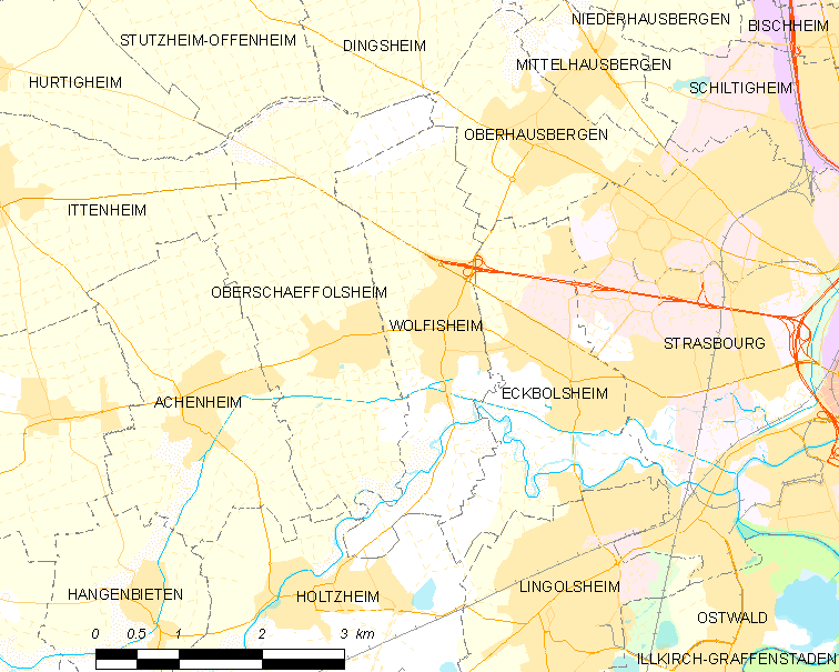 Map of French municipality